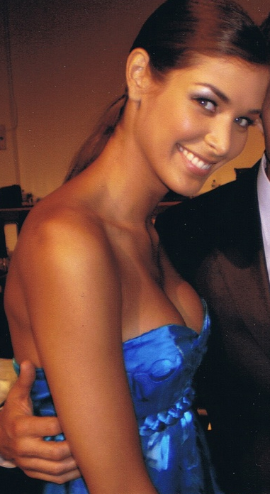 Miss Universe Dayana Mendoza, next to not shown Fashion Designer Nicolas Felizola and Mexican Singer Patricia Manterola, at Miami Fashion Week at the second parade.